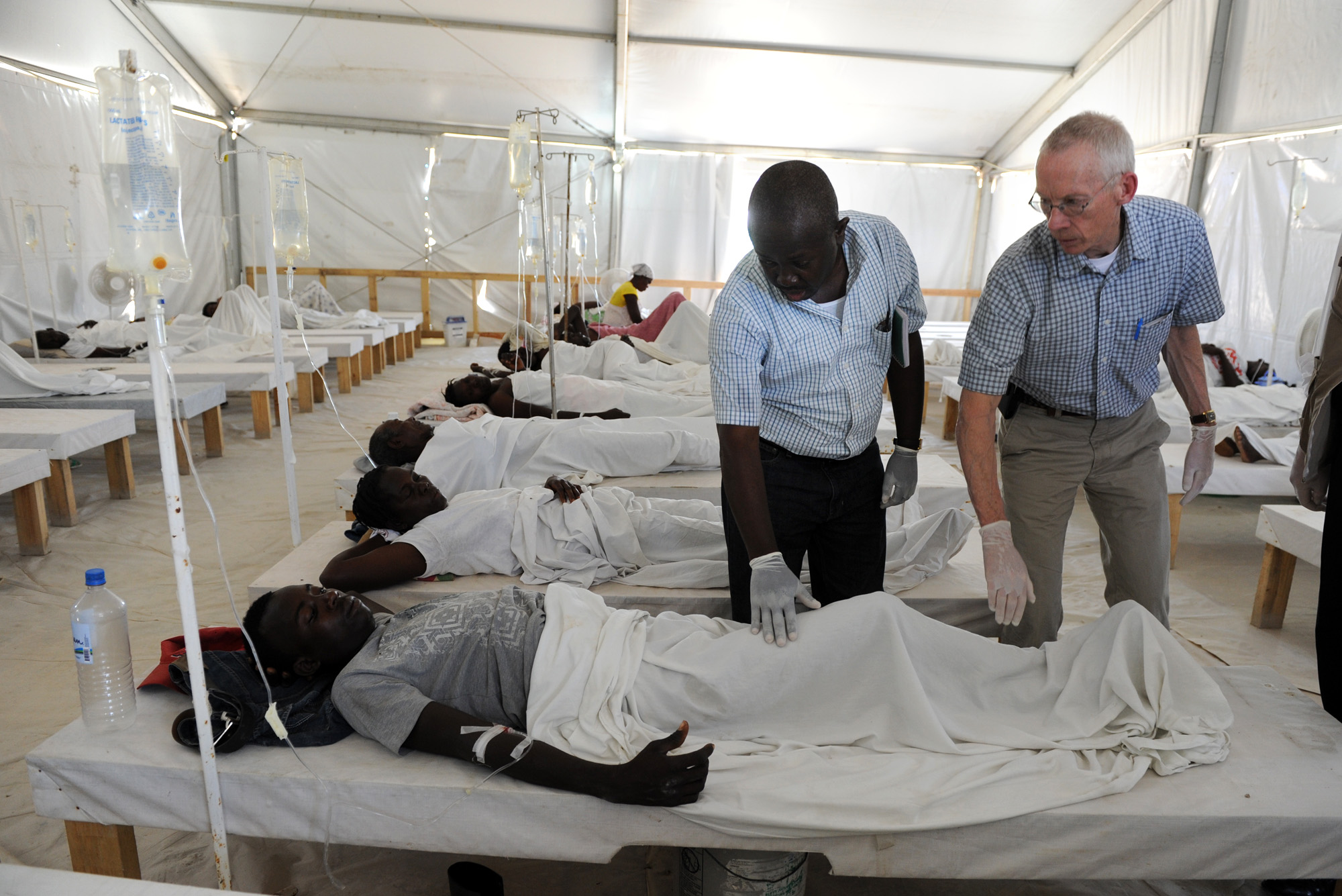 Mark Ward (right), Deputy Assistant Administrator for USAID's bureau of Democracy, Conflict and Humanitarian Assistance, visits a cholera treatment facility operated by USAID/OFDA grantee Partners in Health in Mirebalais, Haiti, on Jan. 26, 2011. Photo copyright Kendra Helmer/USAID All rights reserved